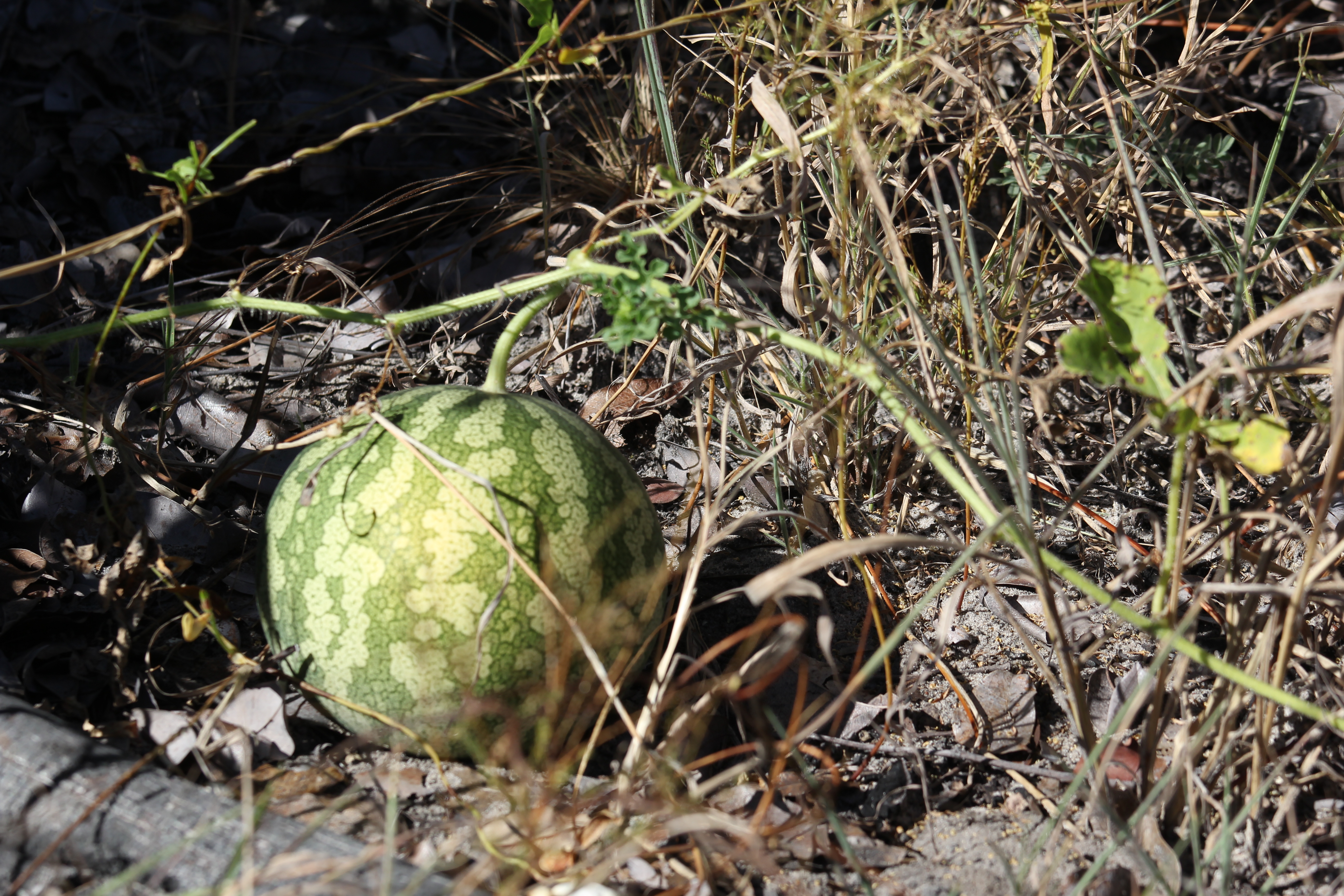 Français